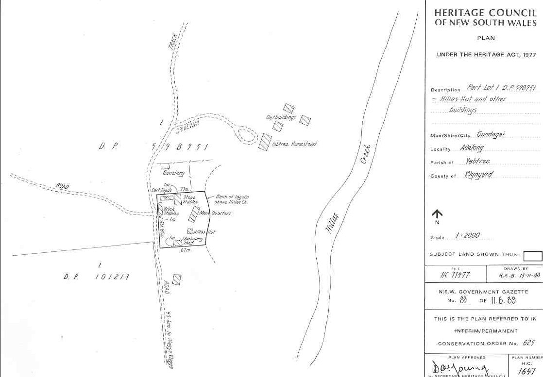 Hillas Hut: PCO Plan Number 625